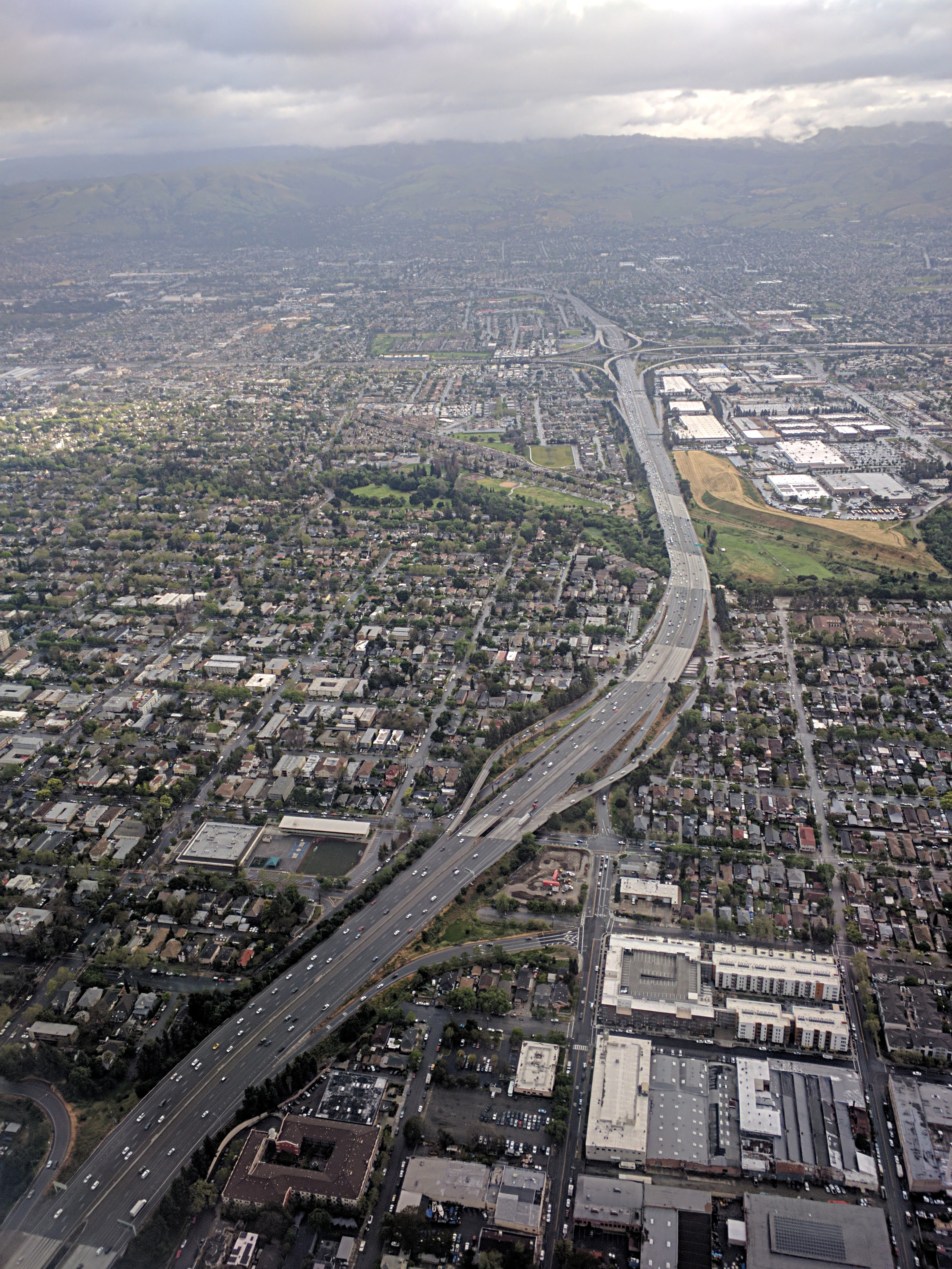 The Joseph P. Sinclair Freeway, Interstate 280, and the interchange with US 101, in San Jose, California, aerial from the southwest